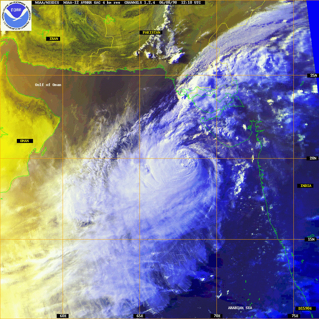 Tc aims at Sindh and Gujarat border